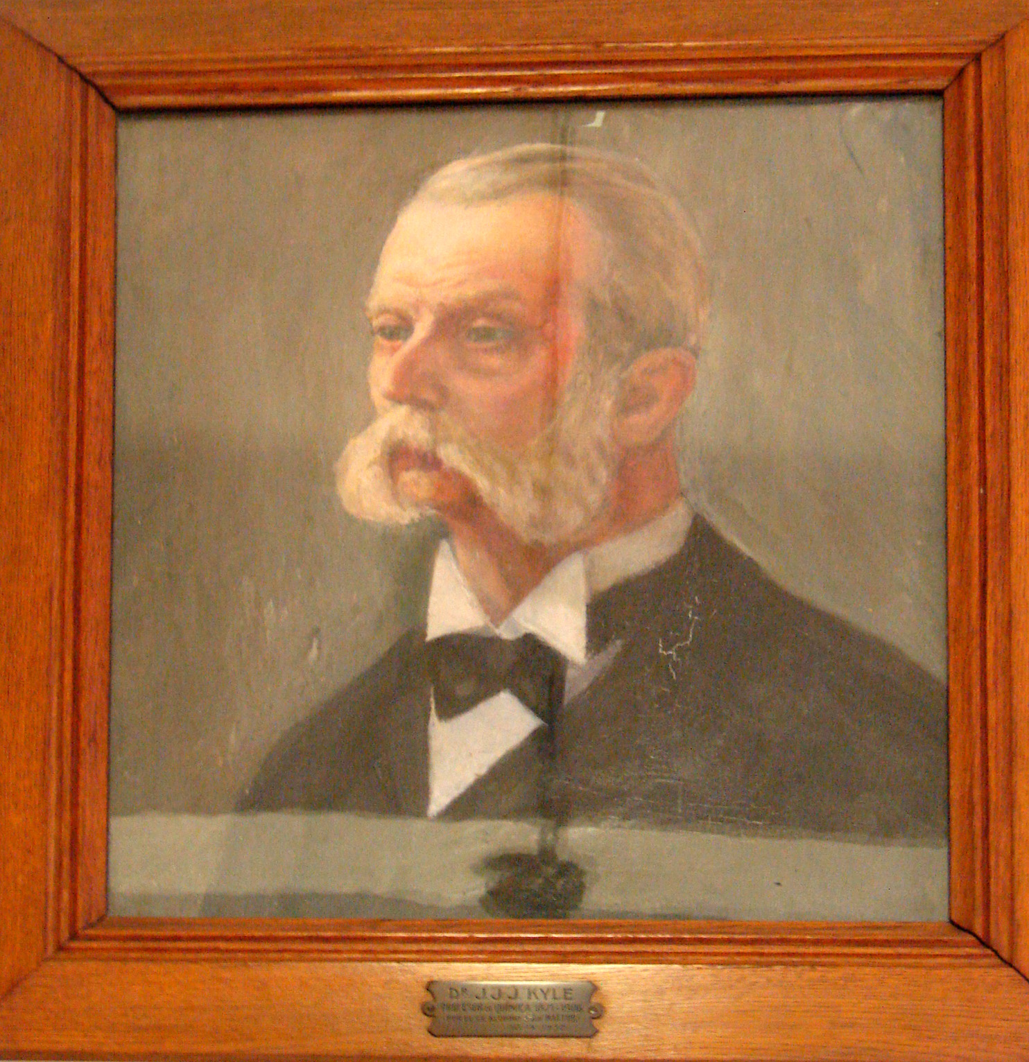 Photograph of 19th century portrait.